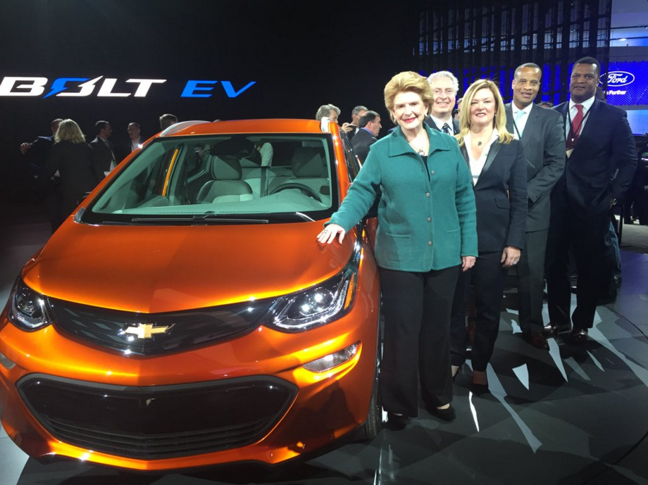 U.S. Senator Stabenow with the all-electric Chevy Bolt at the 2016 North American International Auto Show.